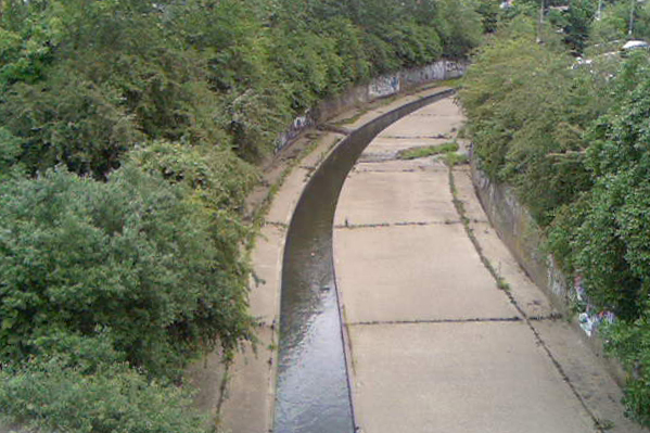 The River Crouch flows through Wickford in a concrete bank designed to protect the town from flooding. River Crouch, Wickford. Narrow but quite deep!.